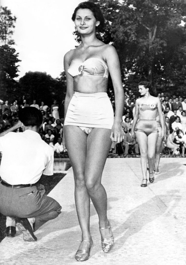 A young Sophia Loren, aged 15, at a beauty contest in Naples, Italy